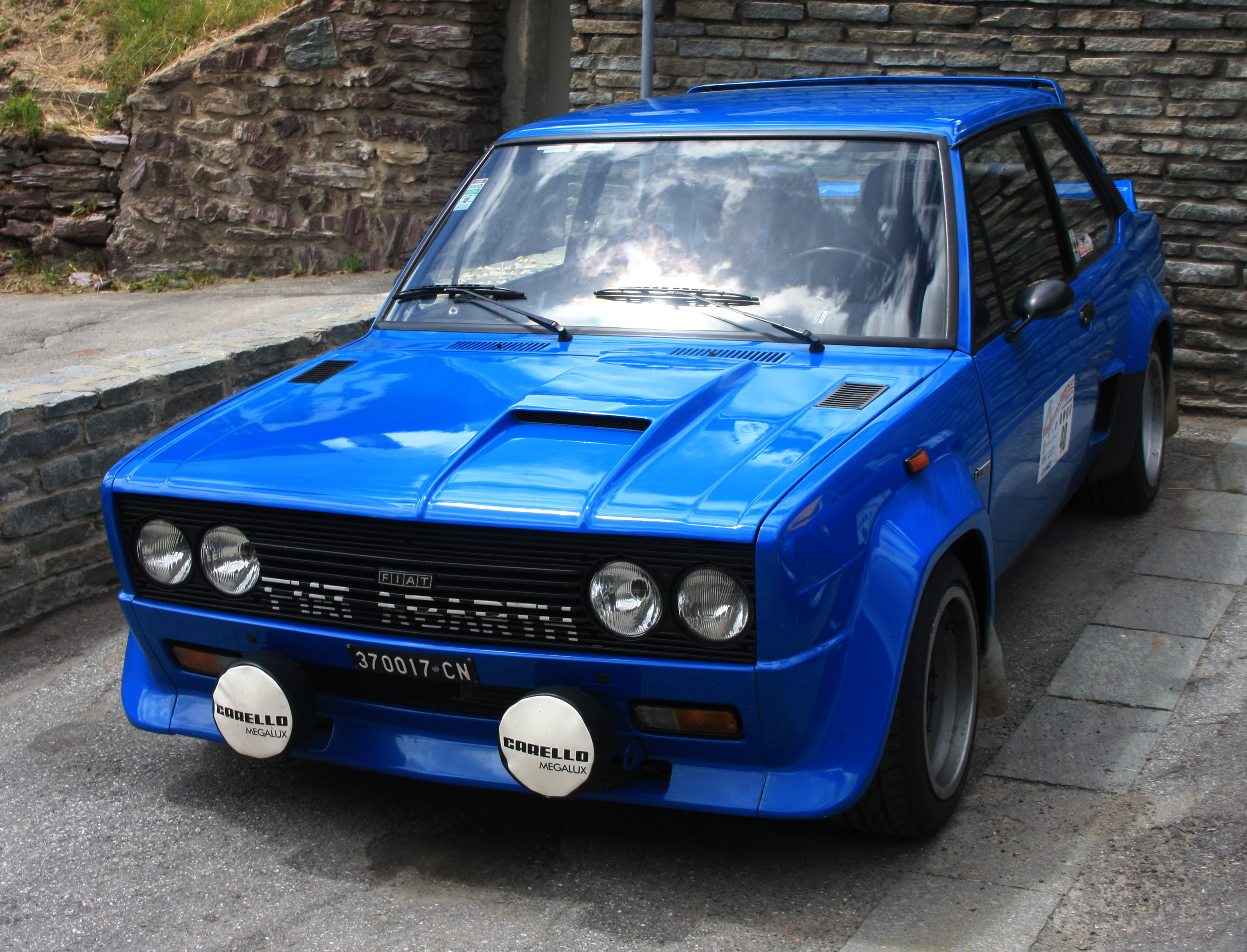 1976 Fiat 131 Abarth at the 4th Cesana-Sestriere Experience, 13 July 2014.